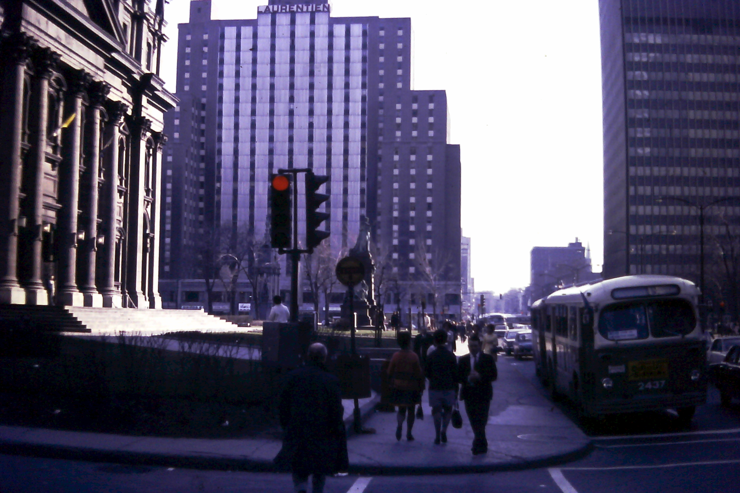 Dorchester (now René Lévesque Boulevard) at Mansfield in Montreal, with the now demolished Laurentien Hotel in the background. This picture was taken by my father. I scanned the slide.